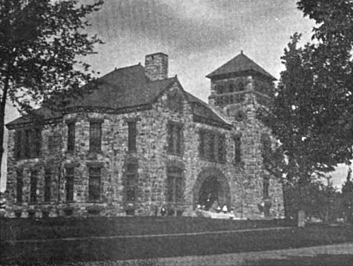 Damon Memorial Library, Holden, Massachusetts.